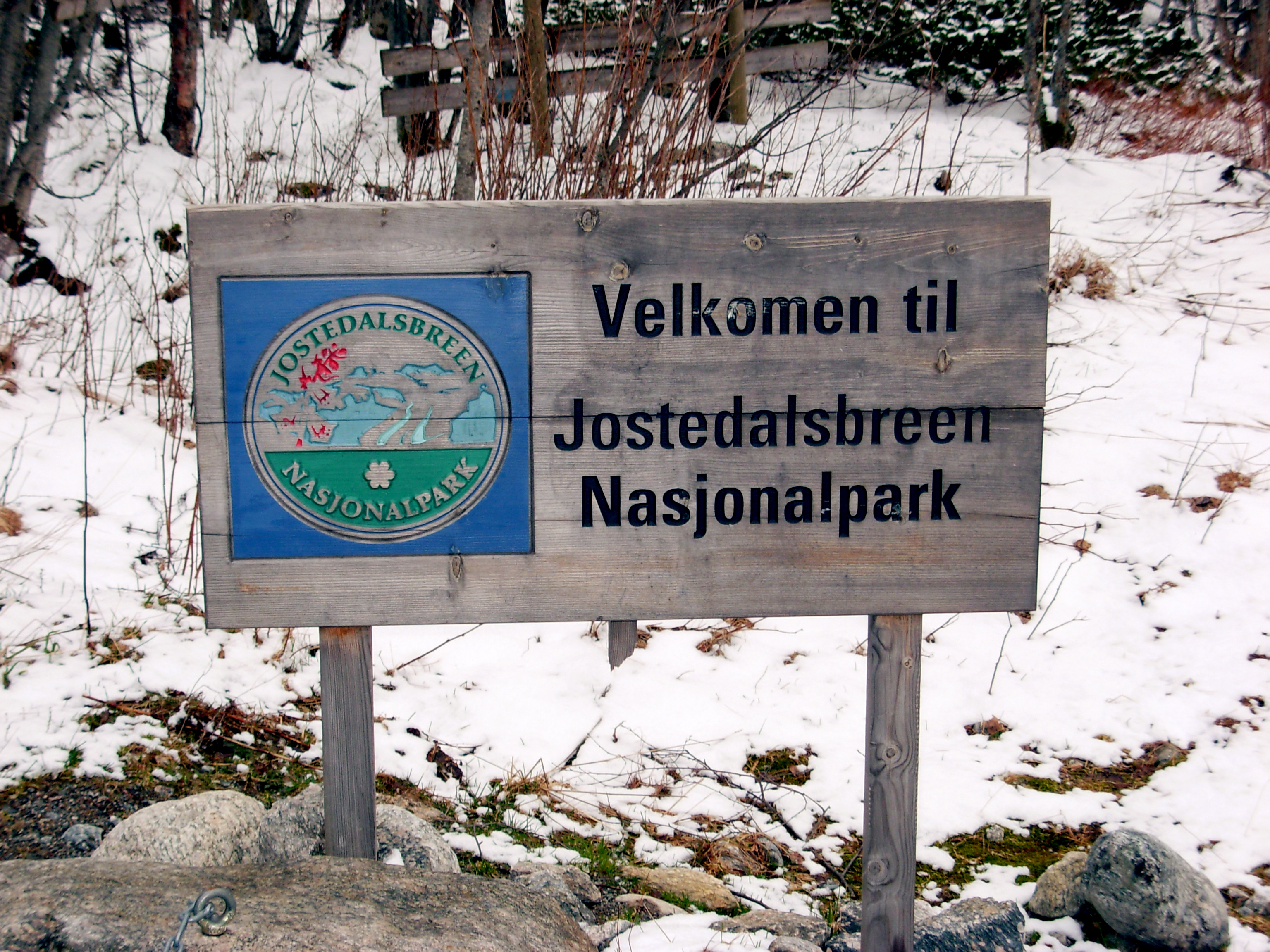 Entering sign of Jostedalsbreen national park